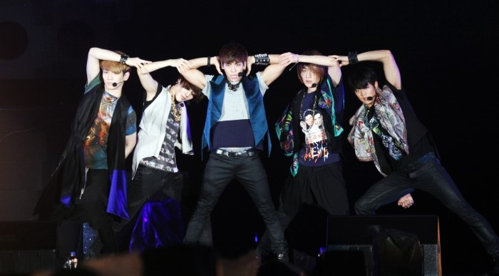 Shinee at the Special Stage Expo on June 26, 2012.Português do Brasil: Shinee no Special Stage Expo em 26 de junho de 2012.